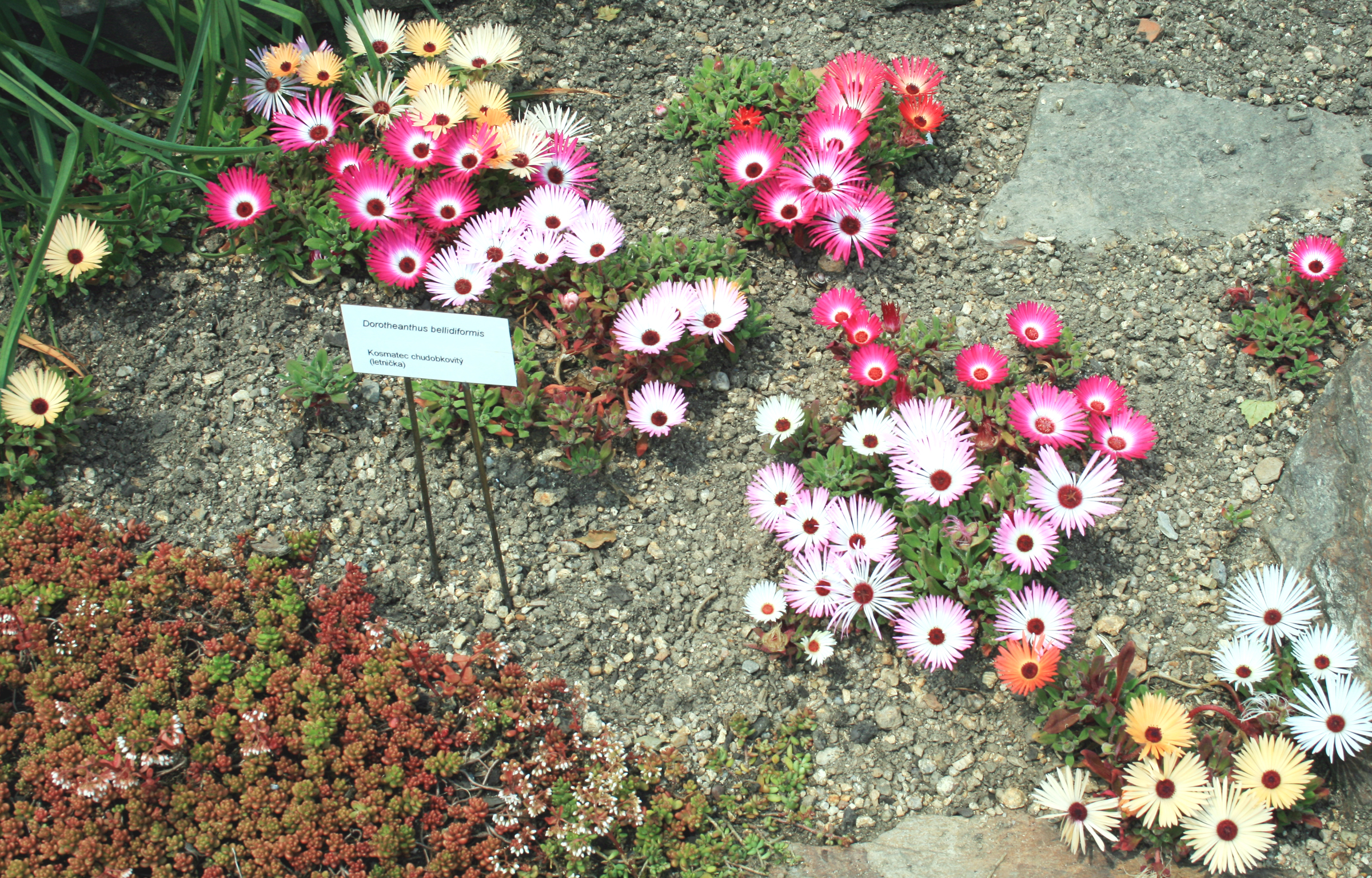 Dorotheanthus bellidiformis in Botanical Garden Liberec, Czech Republic